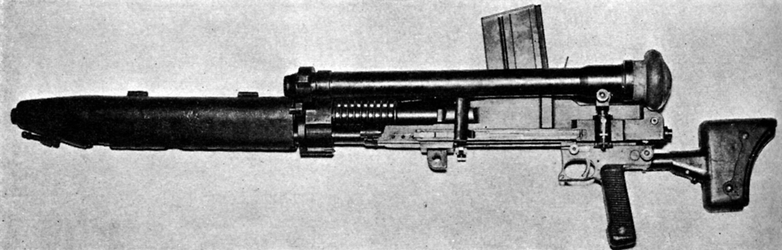 A Japanese Type 97 tank machine gun, used during the Second World War.